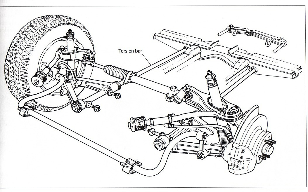 Alfa Romeo Alfetta front suspension